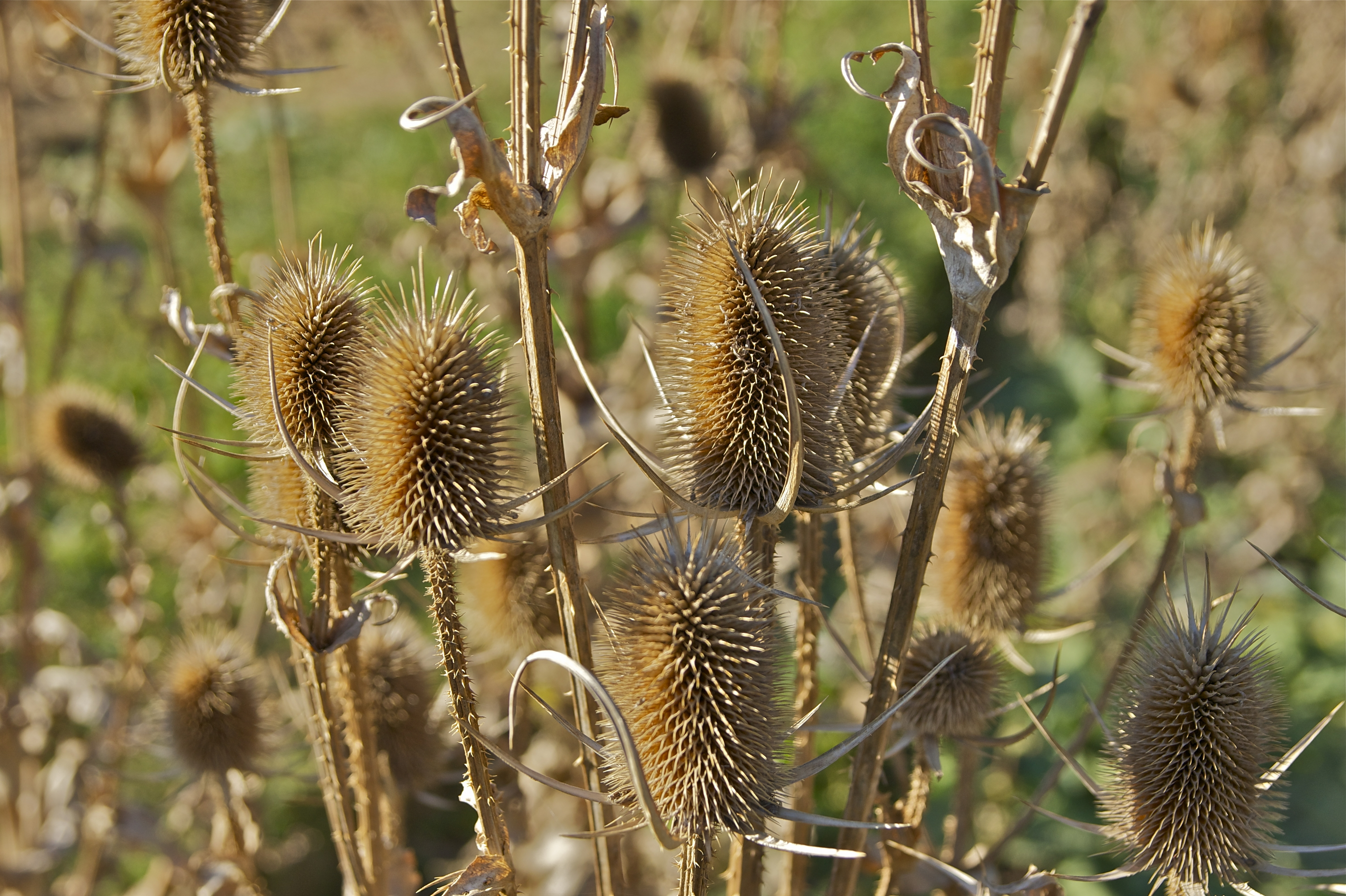 Dipsacus laciniatus L. in autumn. Jardin des Plantes de Paris.